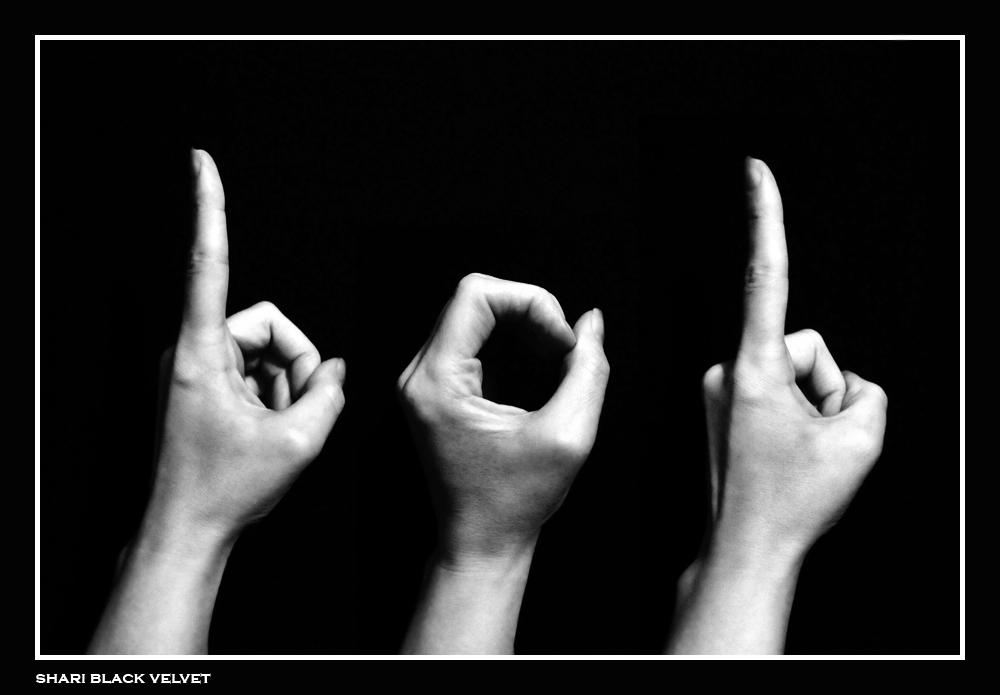 This photo was taken by Shari Black Velvet and sent to us by email You can enter our 101 non-emergency number competition by submitting photographs highlighting '101' to us at or by hashtagging your images #wmp101 on Twitter. We will add your images to our webpage over the coming weeks and winners will be chosen to receive gift vouchers after 31 December.